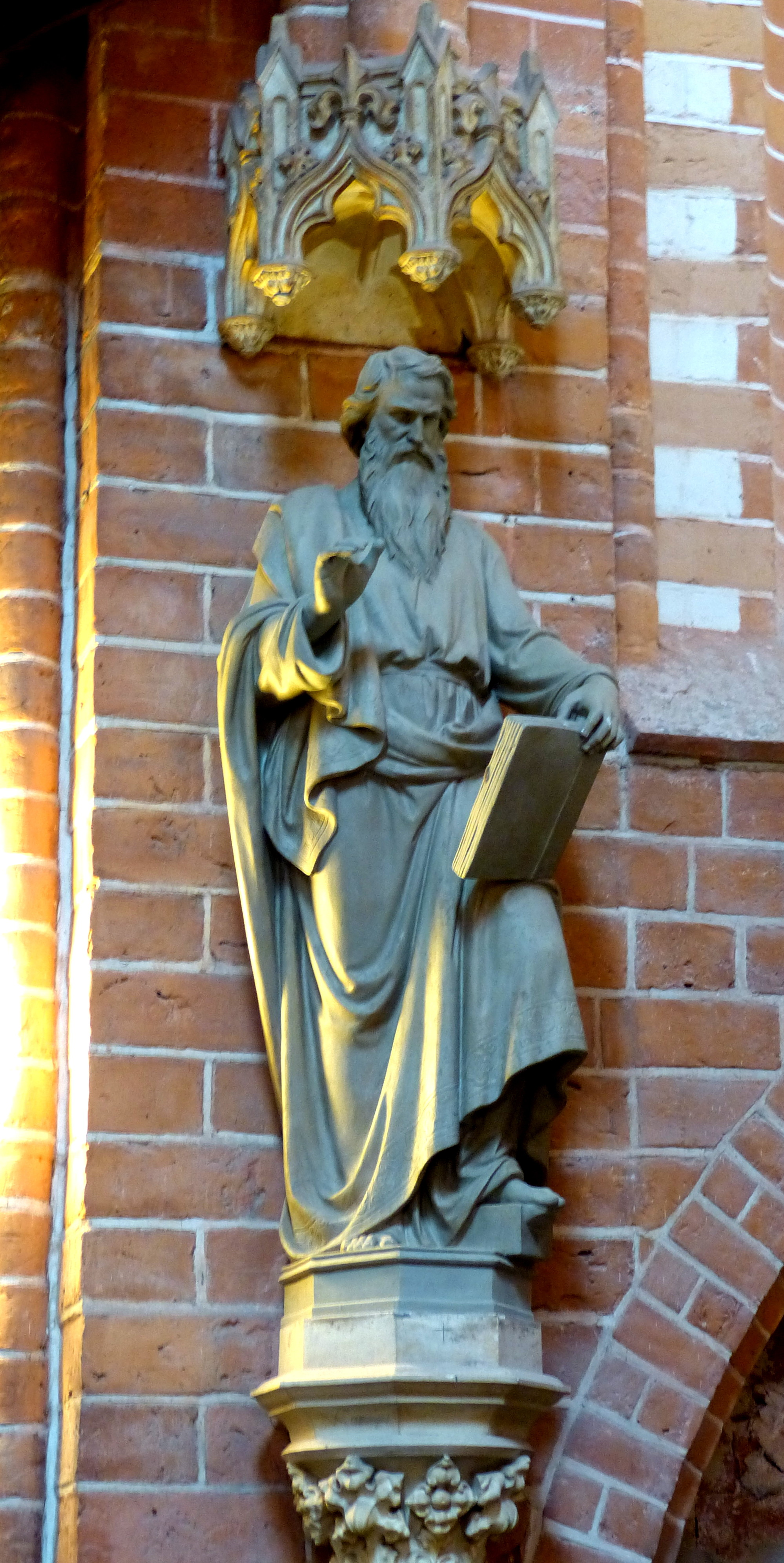 Dobbertin ( Mecklenburg ). Monastery church: Statue of an evangelist ( 1856 ) by Gustav Willgohs.